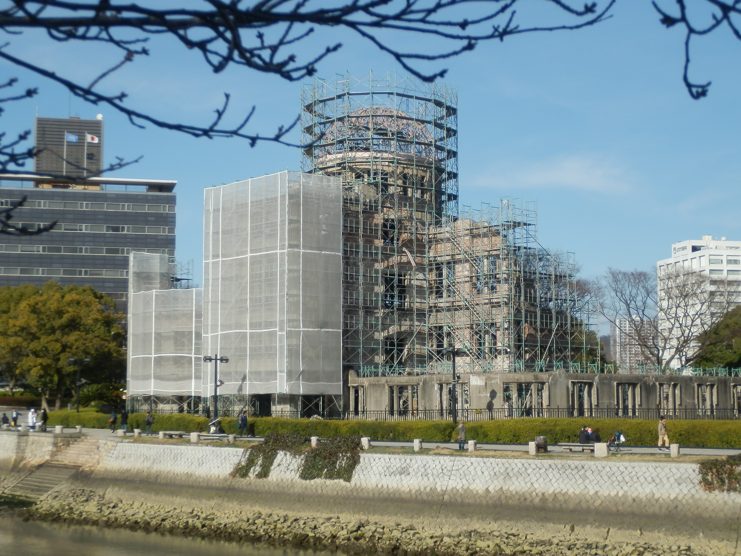 広島帰省2015/3/3-3/4 Back to Hiroshima